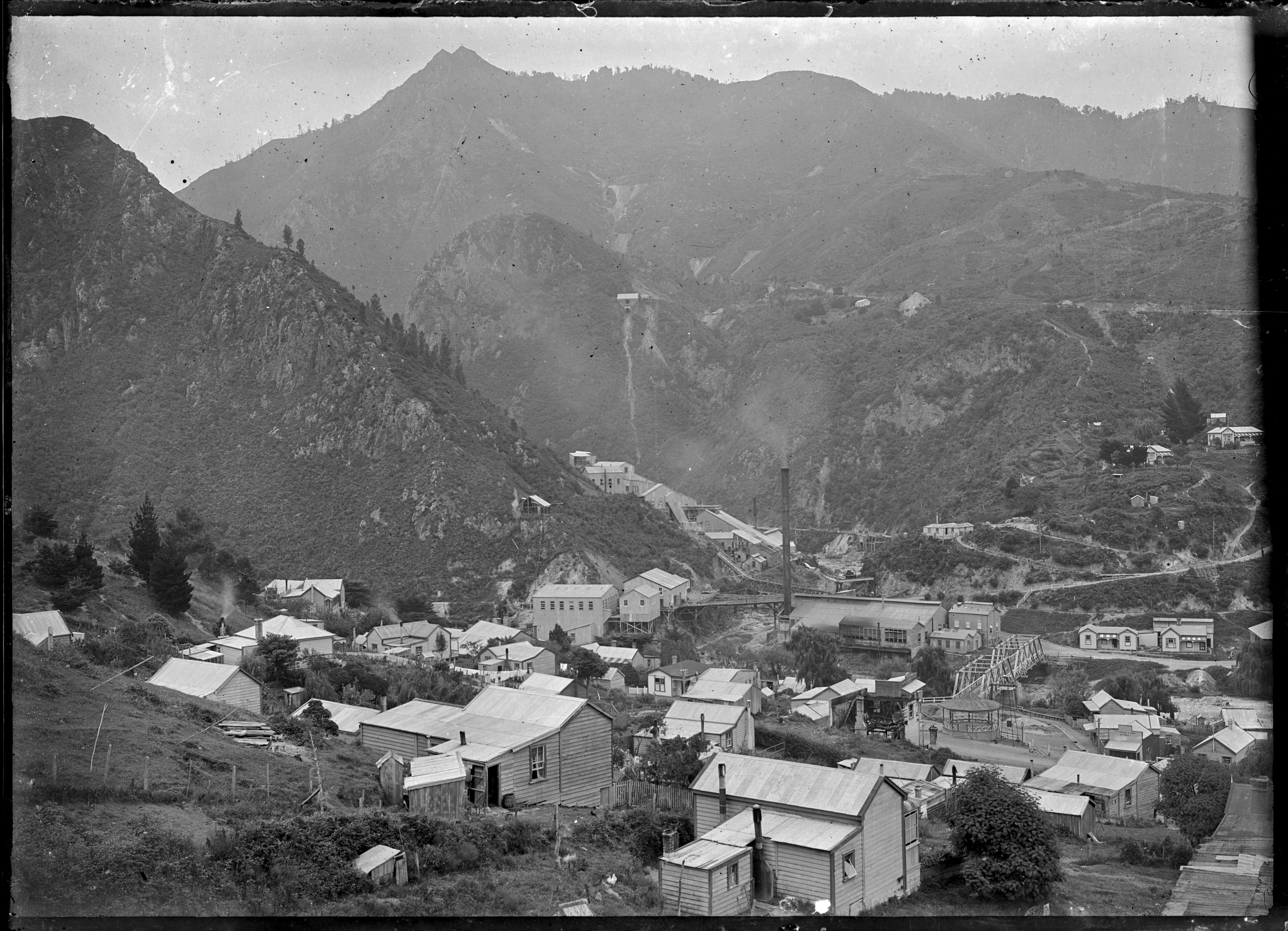 The settlement of Karangahake. Shows buildings relating to gold mining in the centre. Photograph taken by Albert Percy Godber circa 1916.